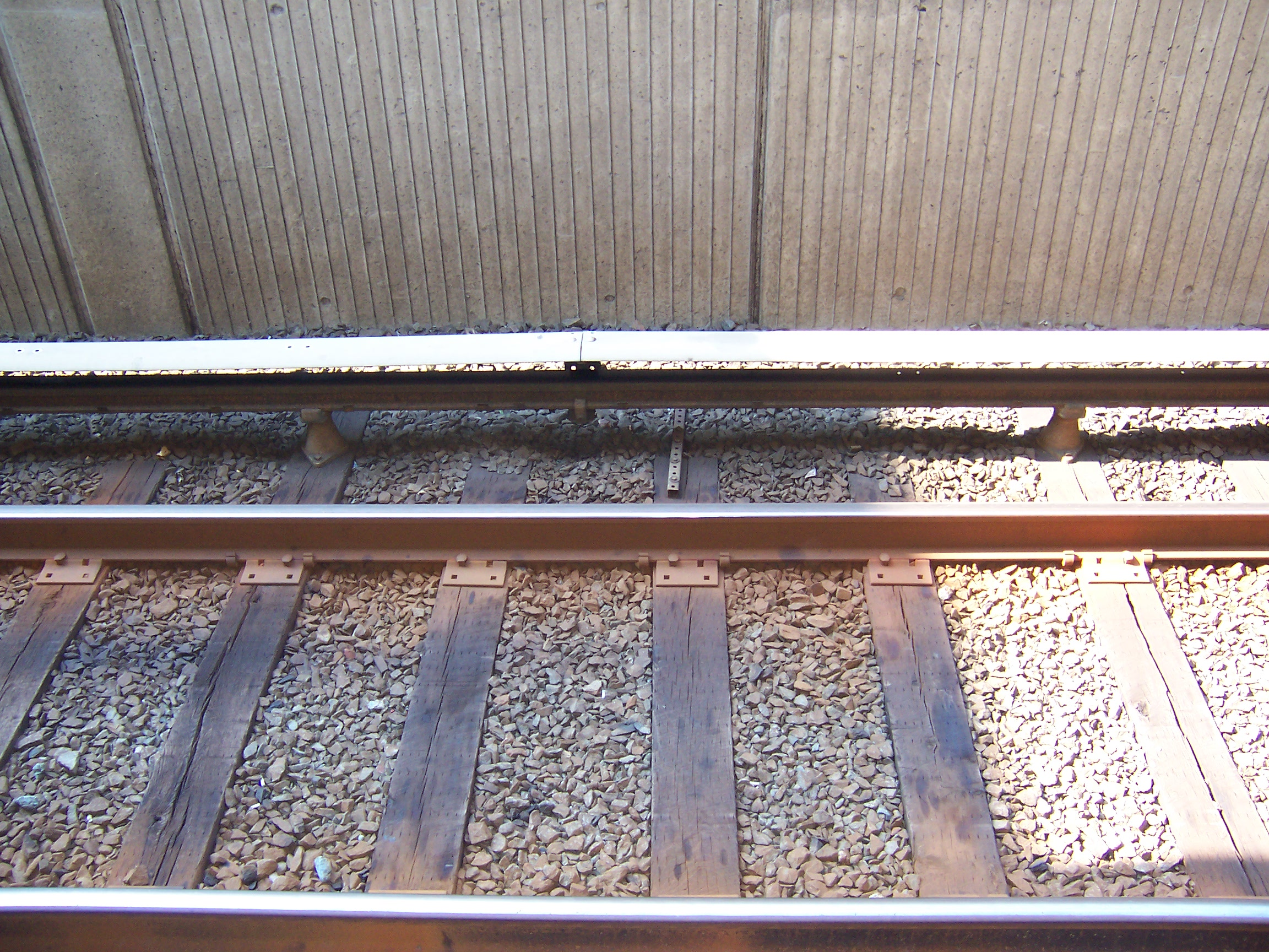 Third rail at the West Falls Church Metro stop in the Washington area, electrified to 750 volts DC. The third rail is at the top of the image, under a white cover. The first and second rails are ordinary railroad rails. They complete the electrical circuit through the trains but are grounded for safety.